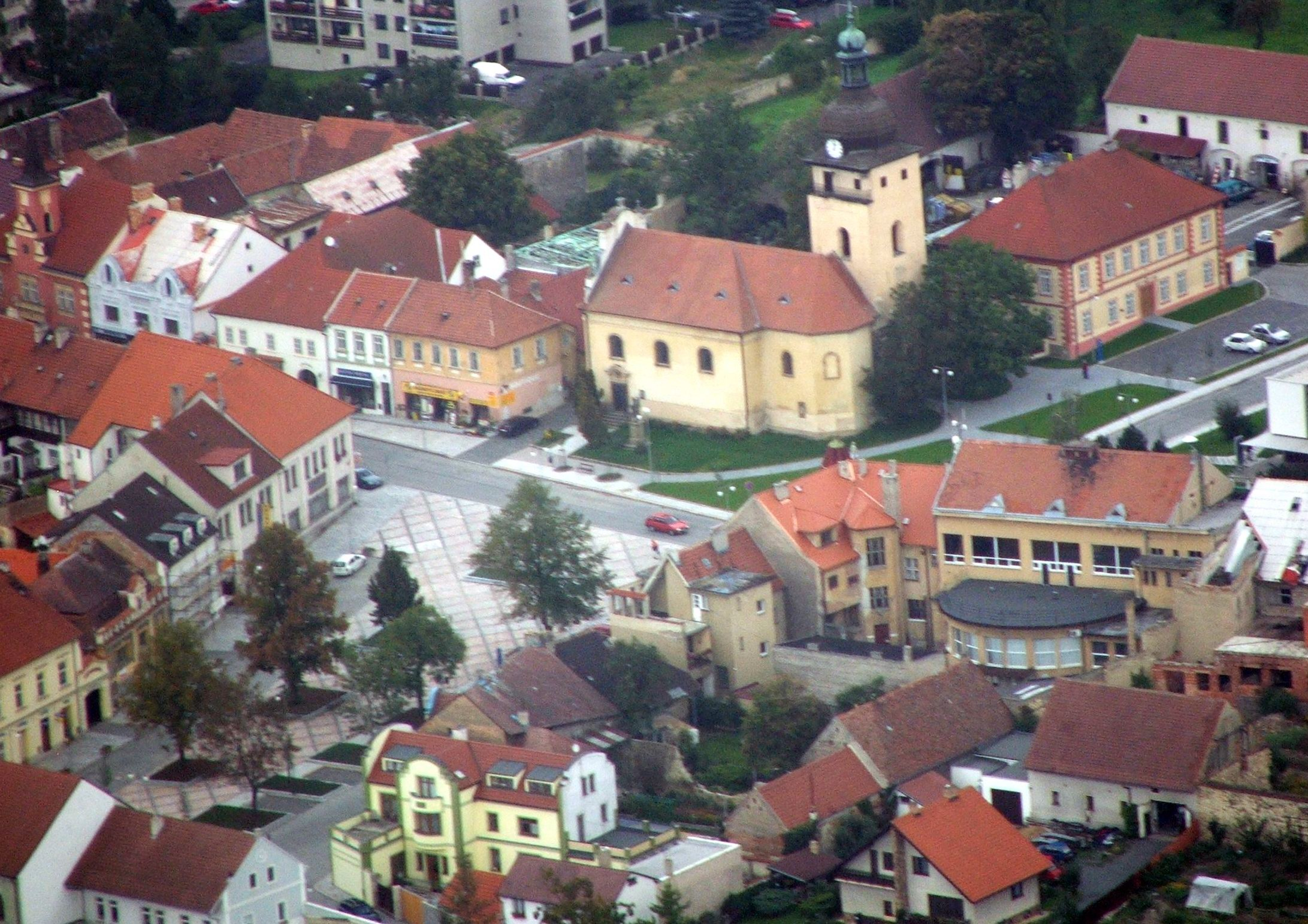 Aerial view of the center in Unhošť, Czechia shortly before landing at Prague Airport.